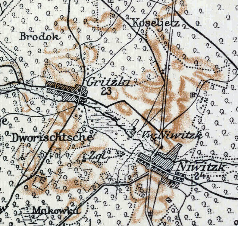 Hrytsky on the map "Karte des Westlichen Russlands", T 35, 1917. According to Digital Repository of Scientific Institutes and Kujawsko-Pomorska Digital Library the map is in the public domain.